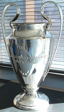 Cropped version of File:UEFA Champions League Trophy.JPG